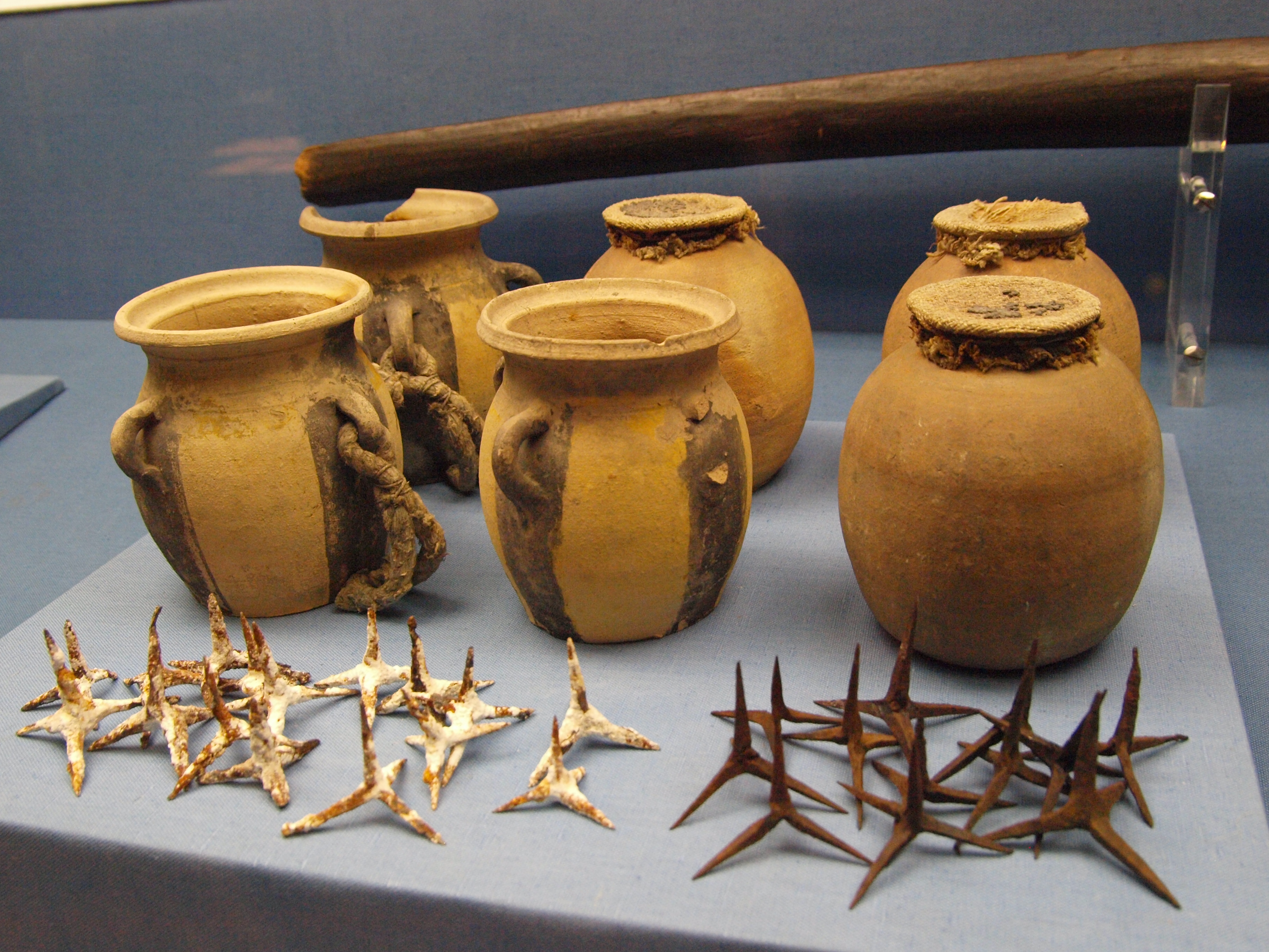 In the background six Stormpots, in the front 27 caltrops of the 16th/17th Century.